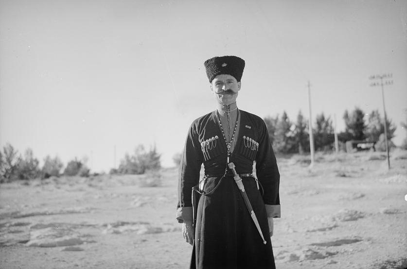 Amman. 24th anniversary of Arab revolt under King Hussein & Lawrence, celebration Sept. 11, 1940. One of the Emir's Circasian [i.e., Circassian] bodyguards